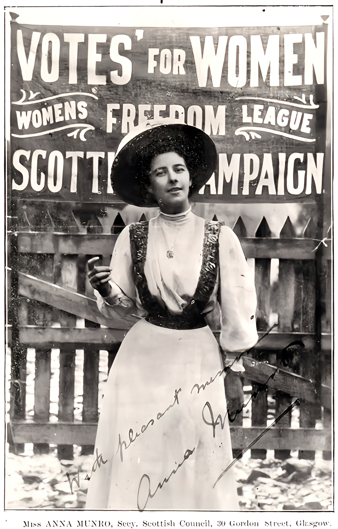 Anna Munro suffragette and women's freedom league in Scotland guess 1909